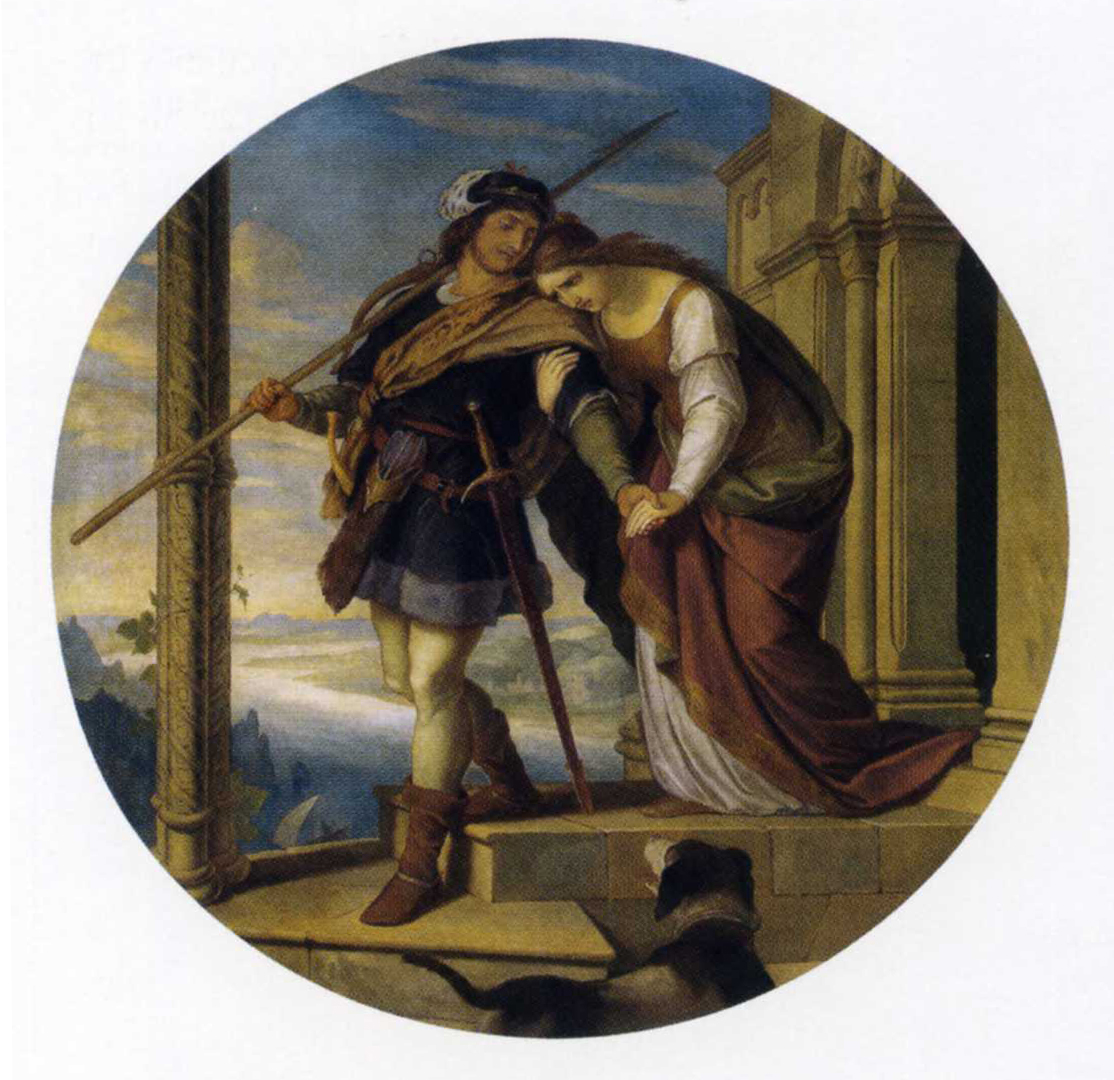 Siegfried's Departure from Kriemhild, by Julius Schnorr von Carolsfeld, ca. 1843, oil on canvas, 87,5 x 85,5 cm, Nationalgalerie Berlin, Inv.-Nr. A II 369